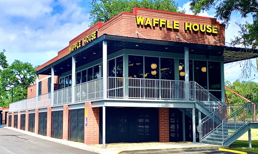 A new Waffle House location, located on the Biloxi, MS beachfront